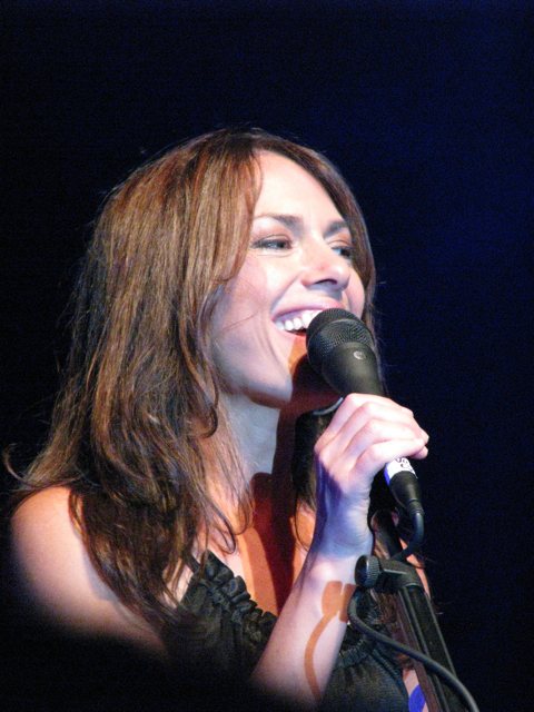 Susanna Hoffs, 2008.